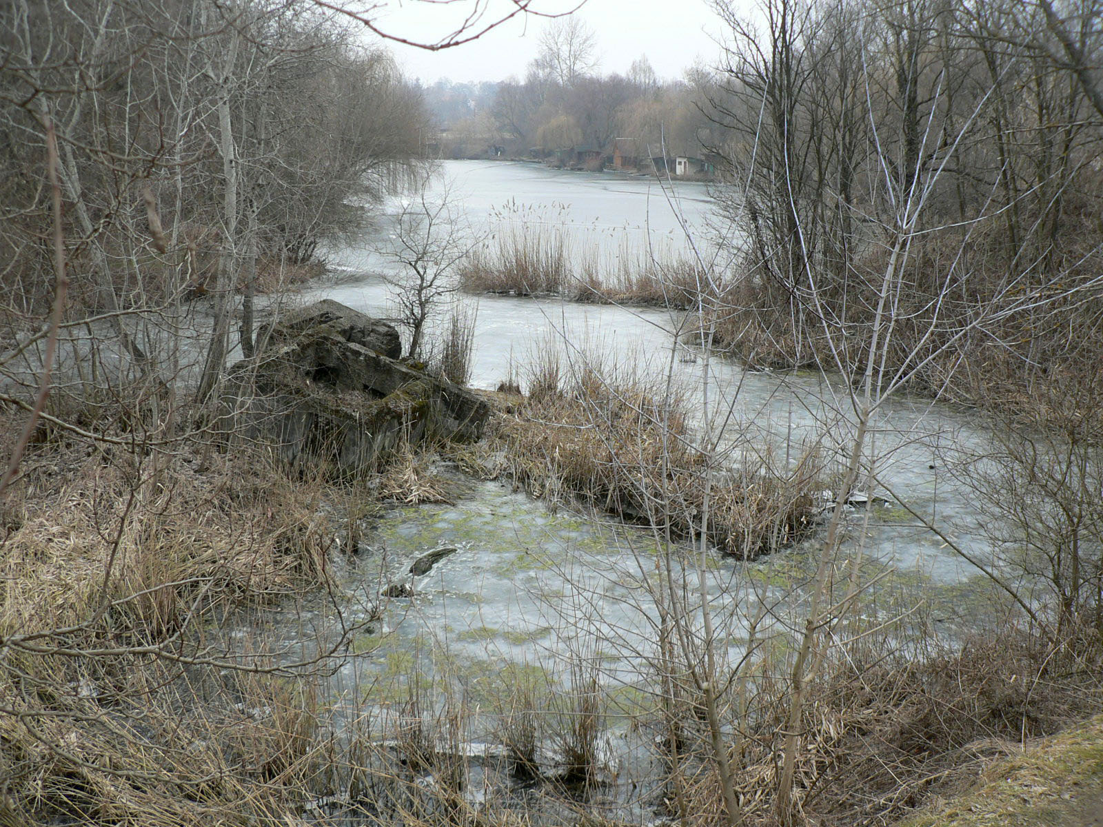 A Kornéli-tó délről nézve